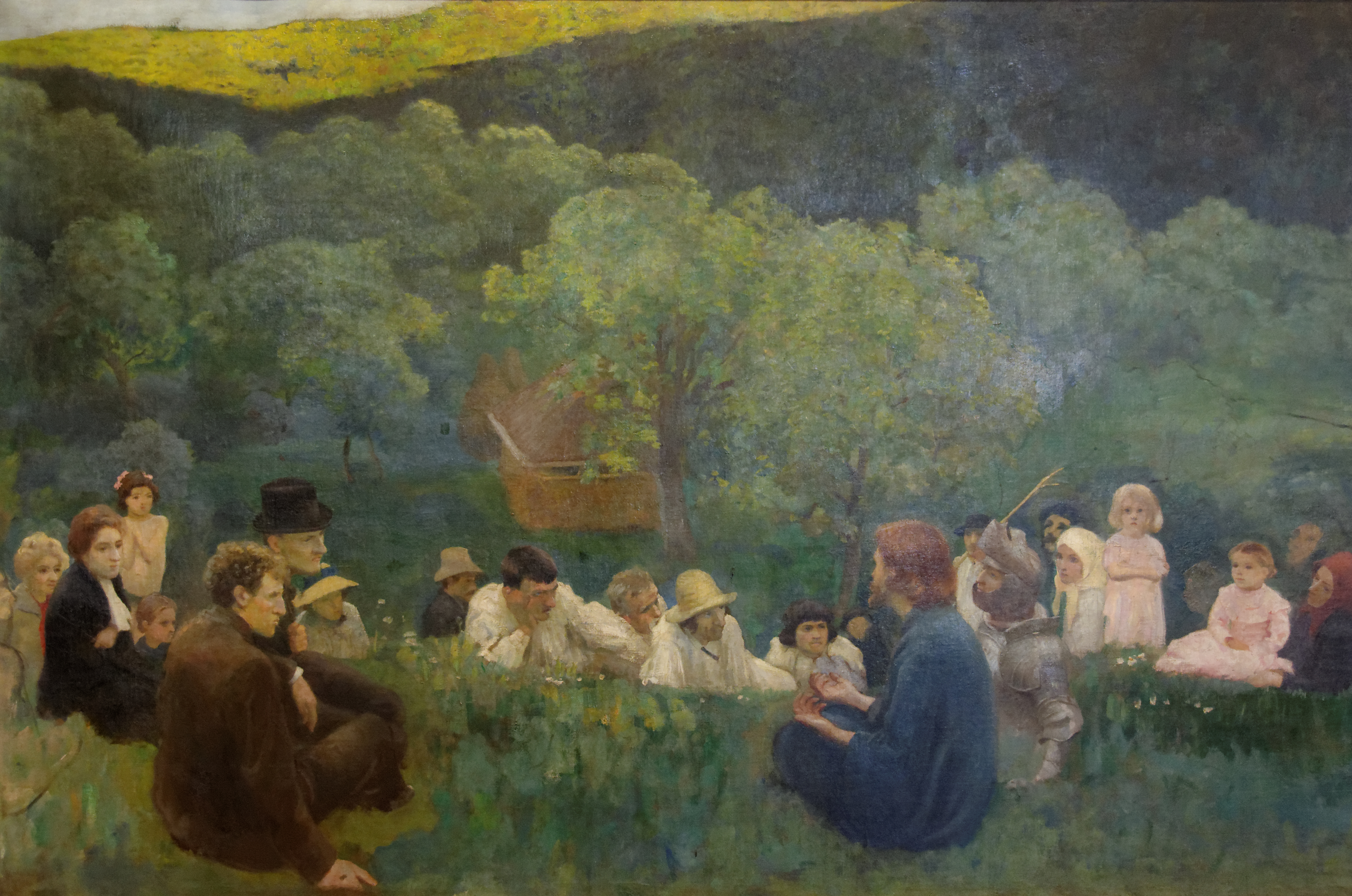 The Sermon on the Mount (1896), Károly_Ferenczy. Hungarian National Gallery, Budapest